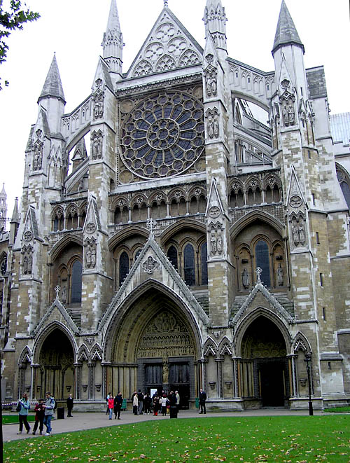 The north entrance of Westminster Abbey. Taken by Adrian Pingstone in November 2004 and released to the public domain.